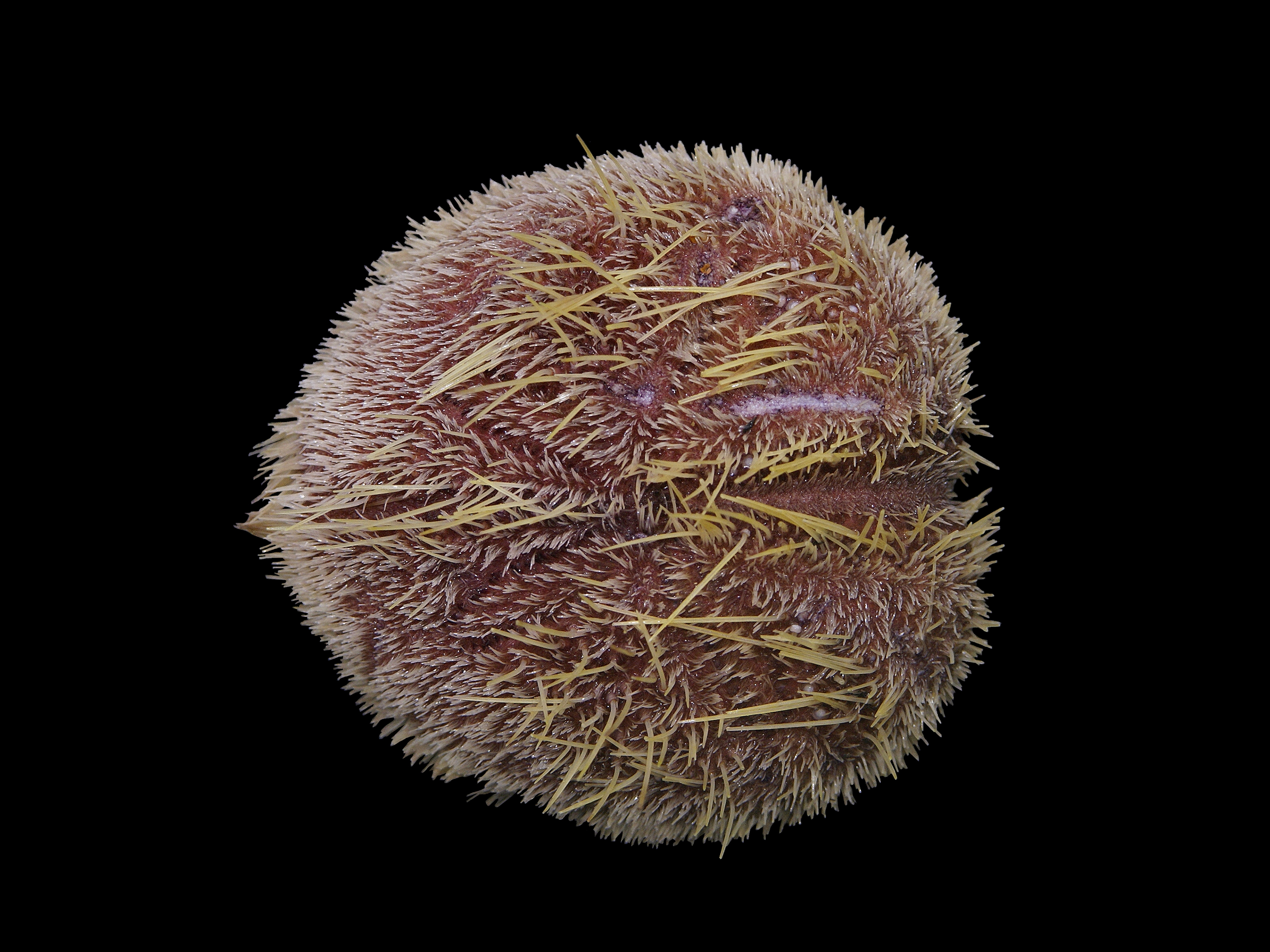 Heart sea urchin, from the Belgian continental shelf. Photographed on a dark background at the location where it was caught. The animal lived on in the aquariums of the Antwerp Zoo.Diameter: ~8 cm